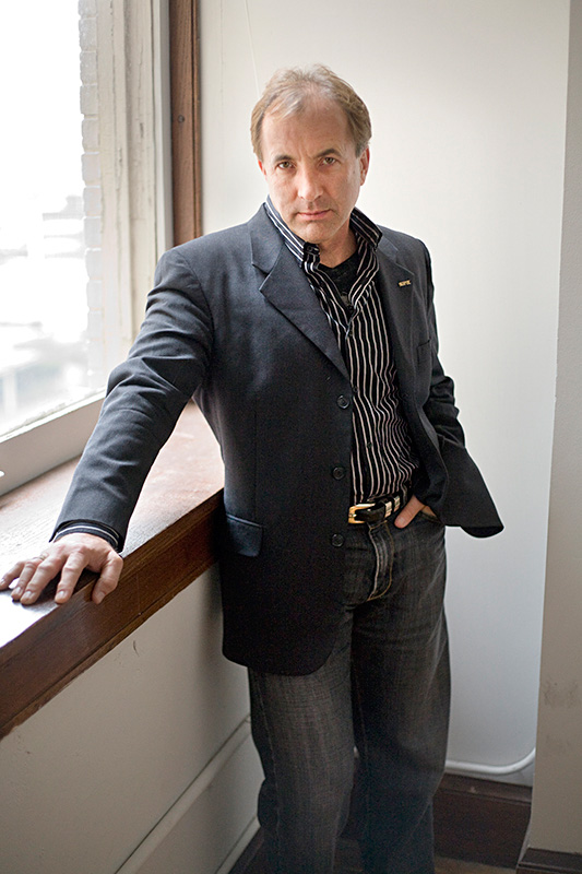 Historian of science and Skeptics Society founder Michael Shermer.